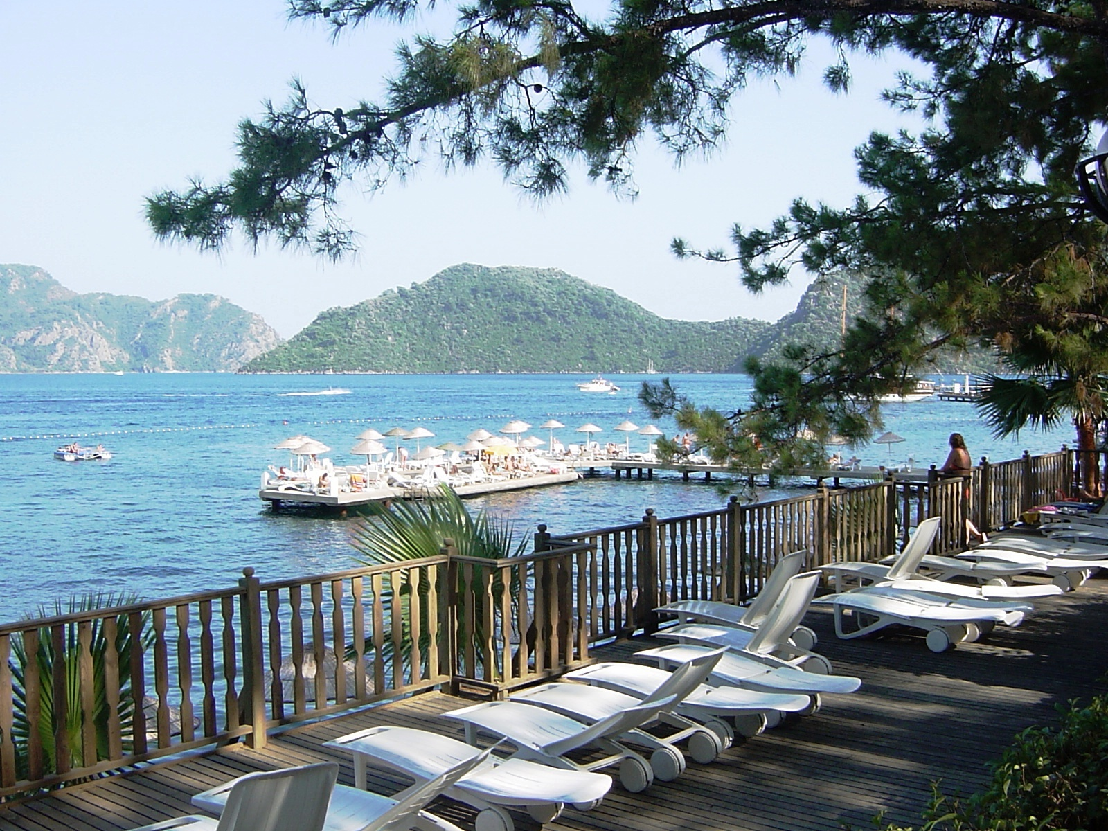 Marmaris on the Aegean coast of Turkey.